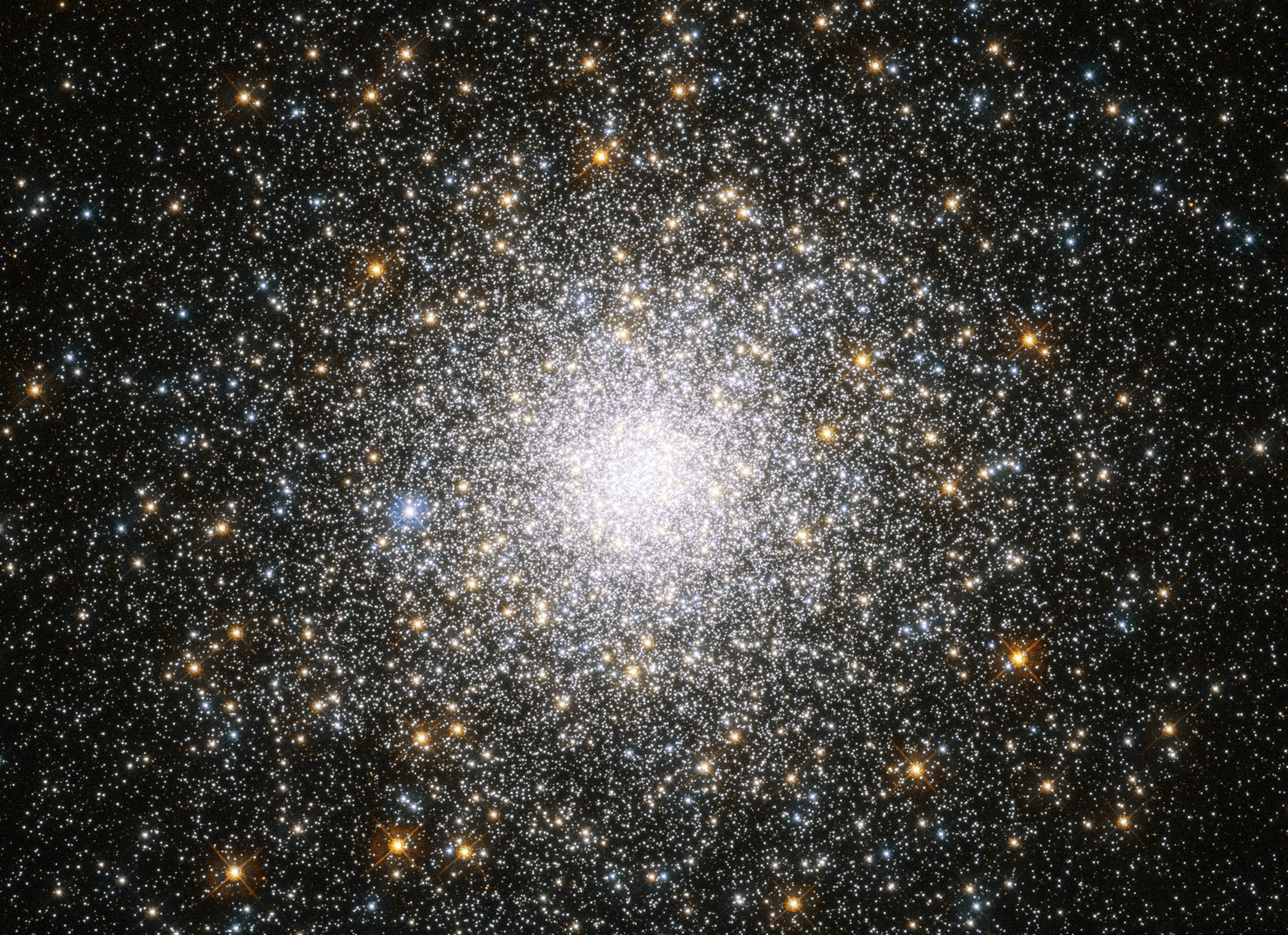 This sparkling burst of stars is Messier 75. It is a globular cluster: a spherical collection of stars bound together by gravity. Clusters like this orbit around galaxies and typically reside in their outer and less-crowded areas, gathering to form dense communities in the galactic suburbs. Messier 75 lies in the constellation of Sagittarius (The Archer), around 67 000 light-years away from Earth. The majority of the cluster’s stars, about 400 000 intotal, are found in its core; it is one of the most densely populated clusters ever found, with a phenomenal luminosity of some 180 000 times that of the Sun. No wonder it photographs so well! Discovered in 1780 by Pierre Méchain, Messier 75 was also observed by Charles Messier and added to his catalogue later that year. This image of Messier 75 was captured by the NASA/ESA Hubble Space Telescope’s Advanced Camera for Surveys.